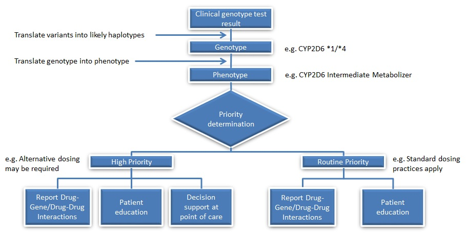 An overall process of how pharmacogenomics functions in a clinical practice. From the raw genotype results, this is then translated to the physical trait, the phenotype. Based on these observations, optimal dosing is evaluated.